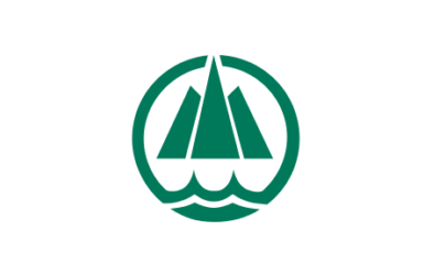 Flag of Obama Nagasaki